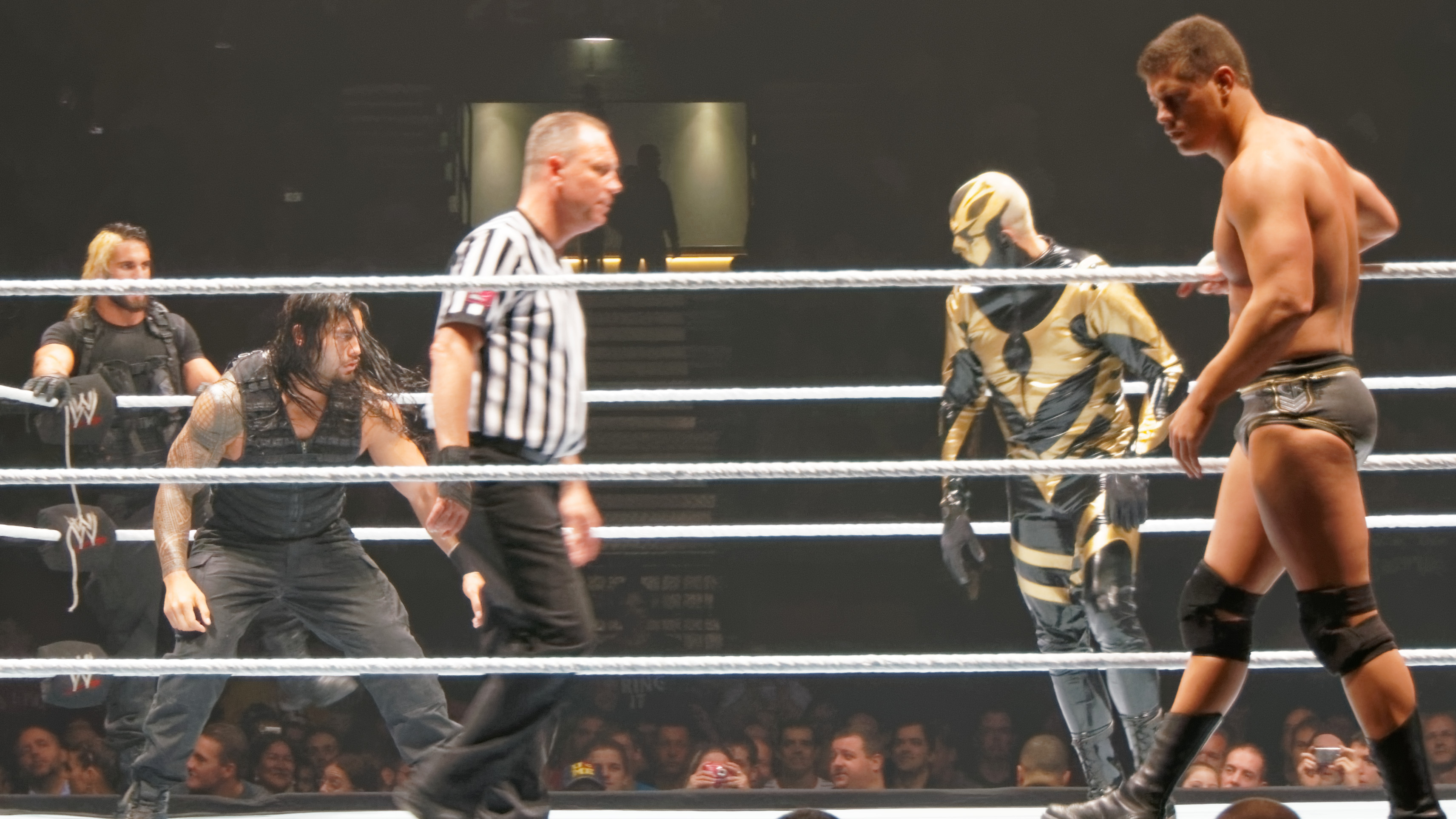 (from left to right) Seth Rollins and Roman Reigns square off against Goldust and Cody Rhodes at a WWE house show on 8 November 2013